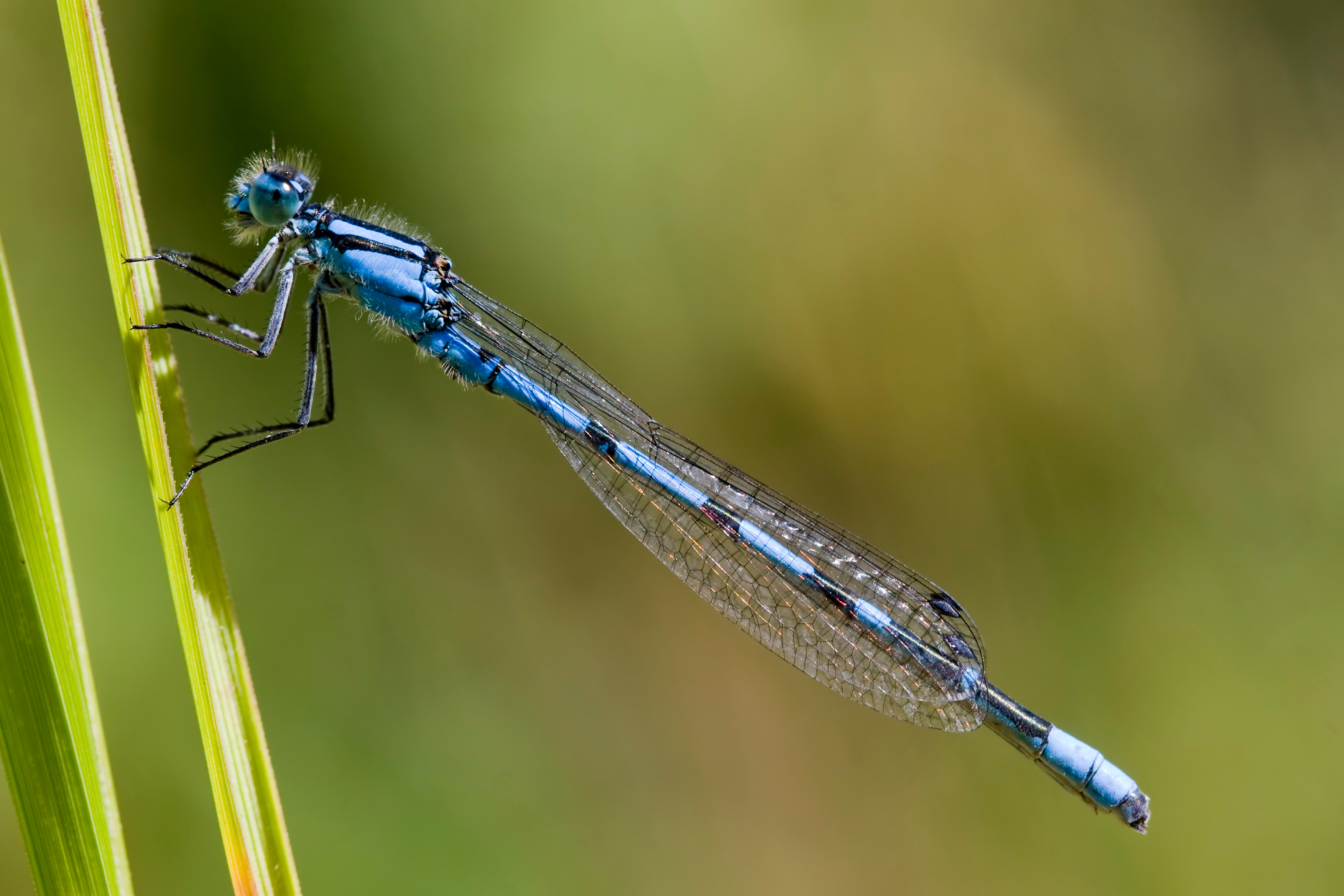 A male of the Common Blue Damselfly (Enallagma cyathigerum) in the Ahlenmoor, a peatland in northern Lower Saxony, Germany. The photo is part of a sequence that shows the complete consumption of a cicada by the damselfly. The entire process takes not much longer than four minutes.